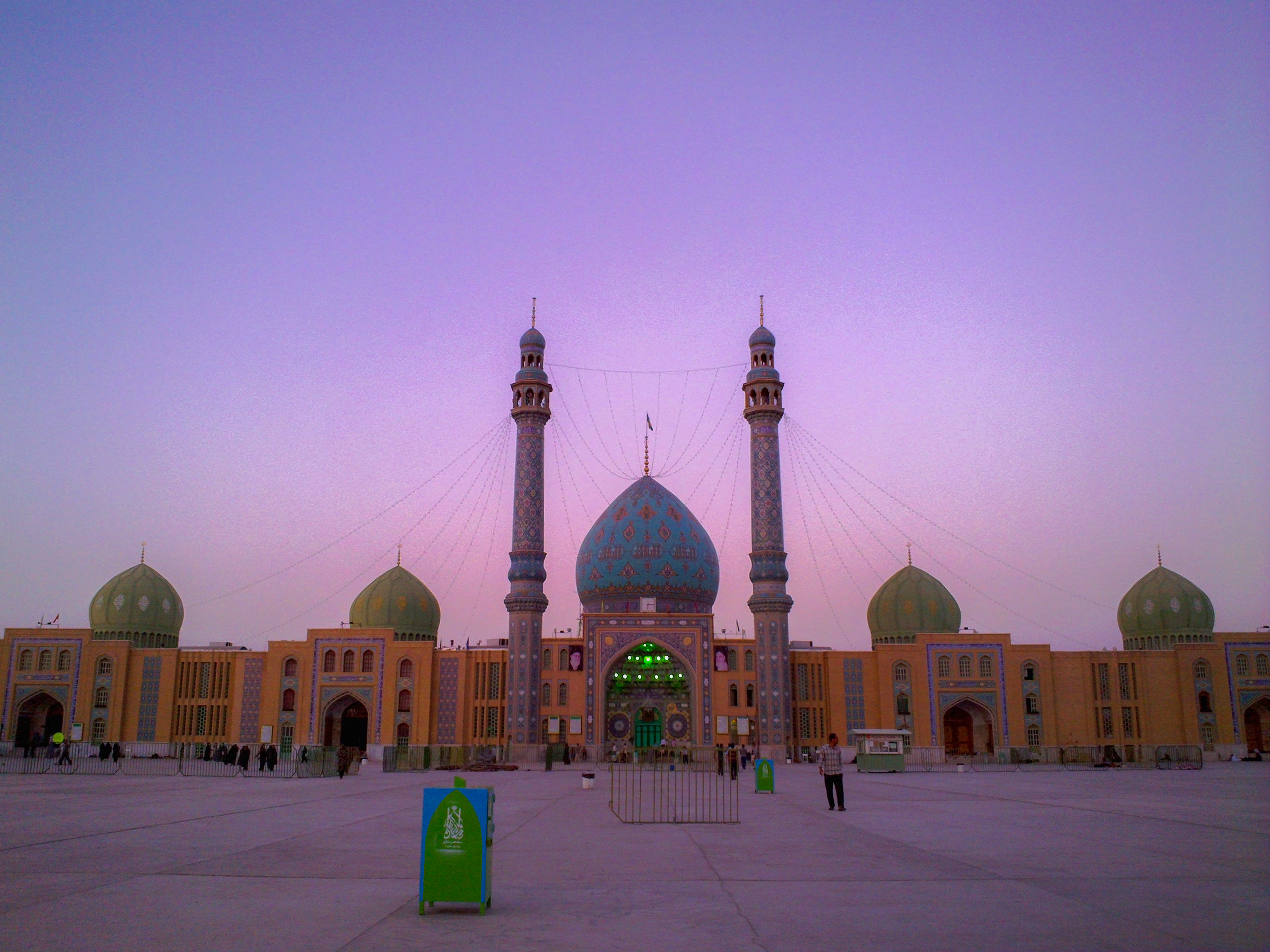 Jamkaran (Persian: Jamkarān; also Romanized as Jamkarān, Jamgarān, Jam-i-Karān, and Jam‘karān) is a village in Qanavat Rural District, in the Central District of Qom County, Qom Province, Iran. At the 2006 census, its population was 8,368, in 1,747 families.